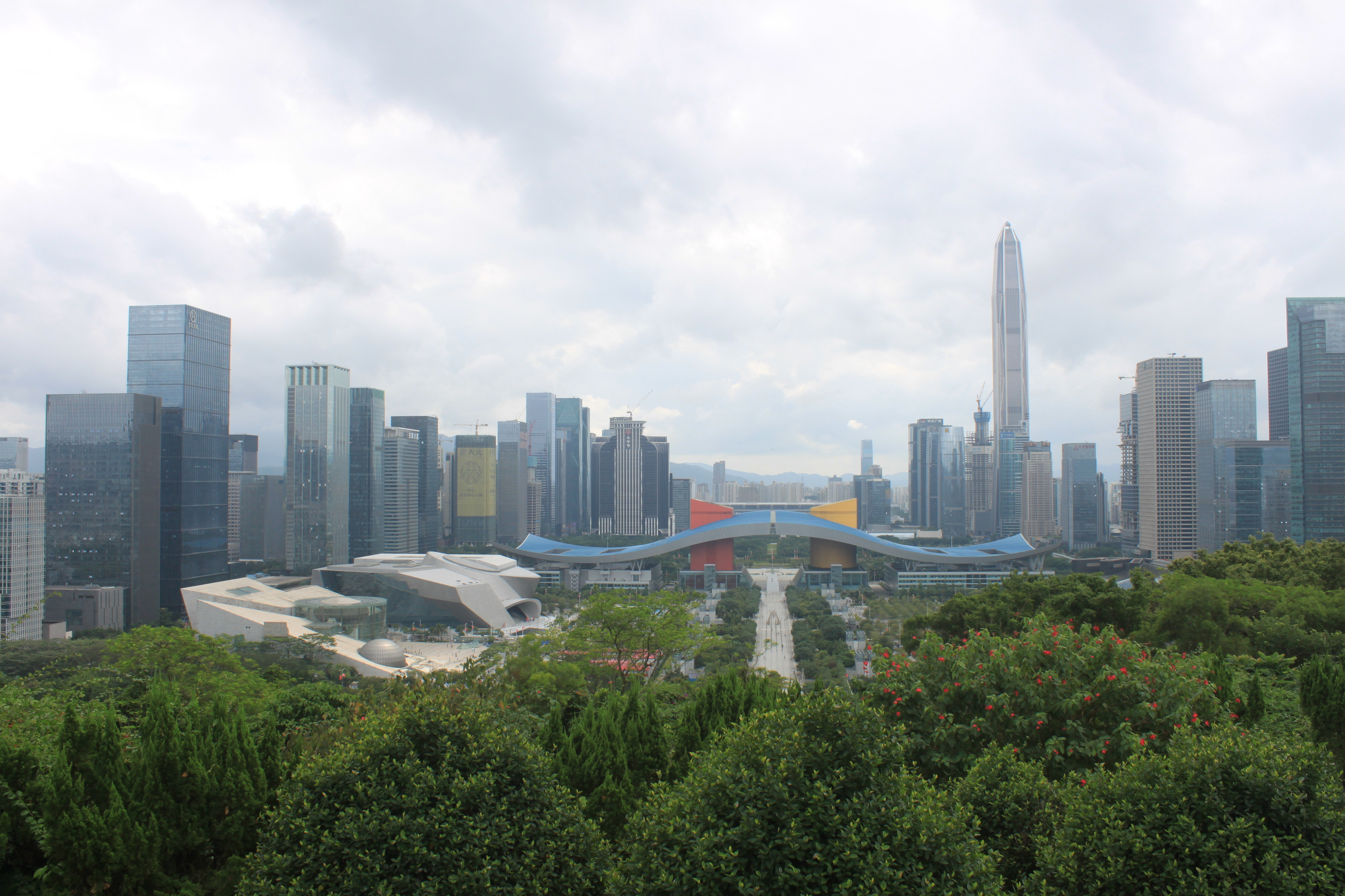 Shenzhen Skyline from Futian District in 2016.